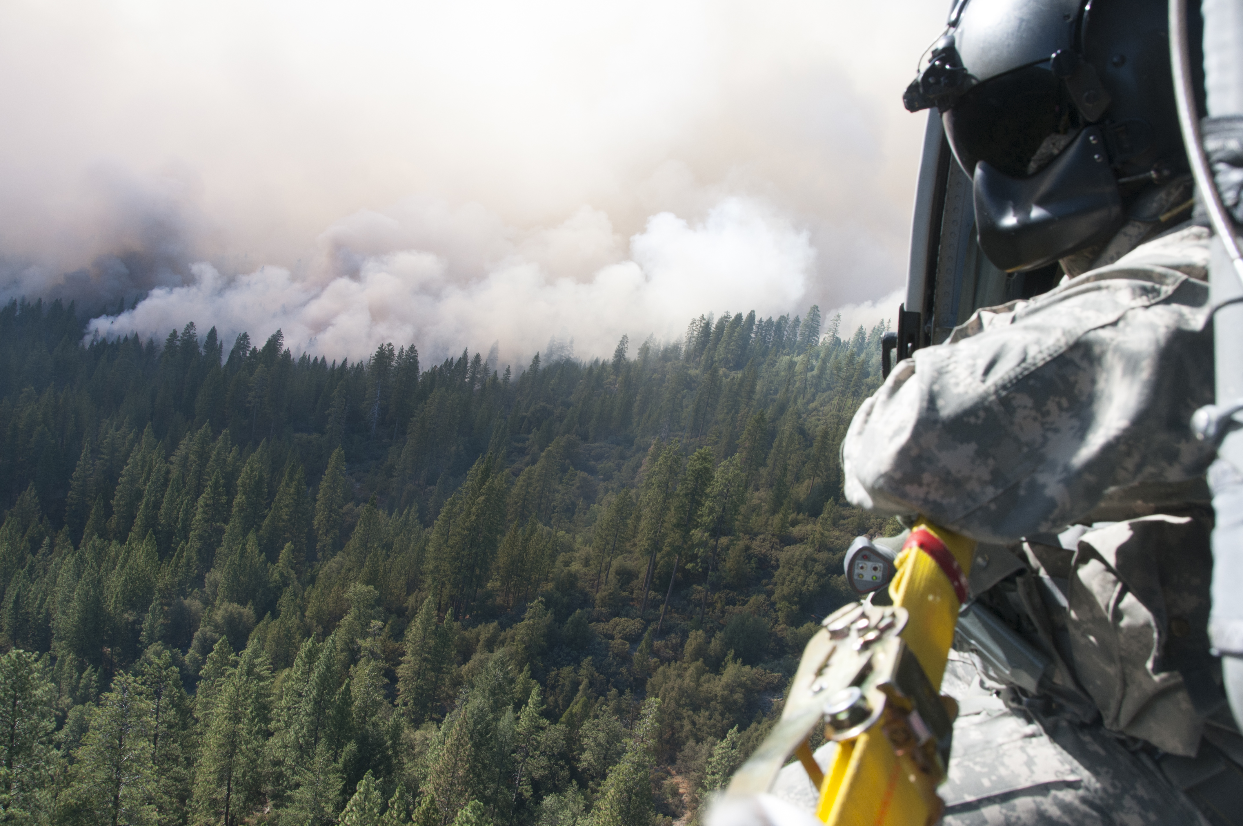 California Army National Guard’s 1–140th Aviation Battalion at the Rim Fire near Yosemite, Aug. 22, 2013. Photo by Master Sgt. Julie Avey.